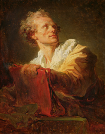 Portrait of a Young Artist, presumed to be Jacques-Andre Naigeon (1738-1810)